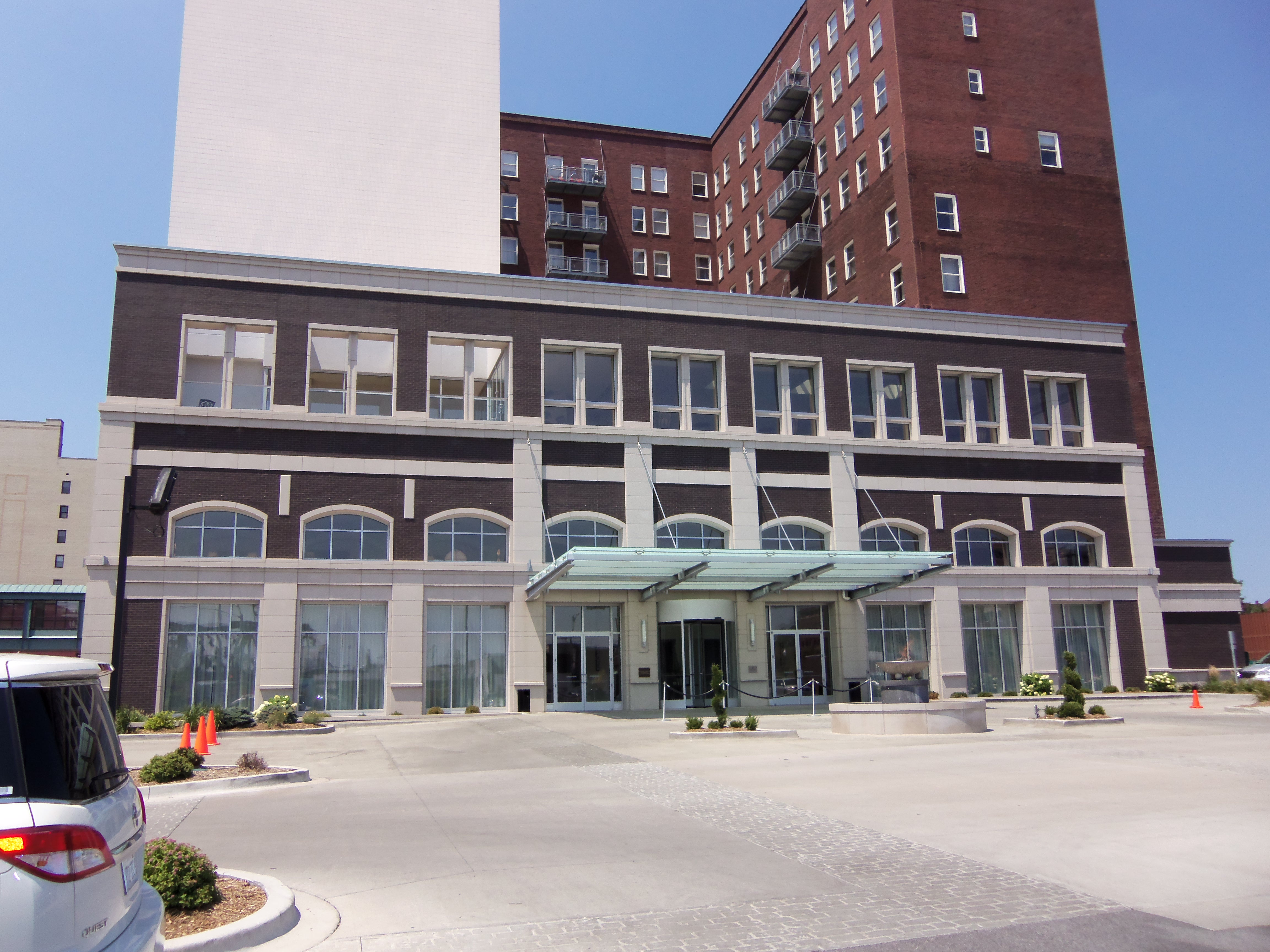 The new main entrance to the Hotel Blackhawk in downtown Davenport, Iowa. It is listed on the National Register of Historic Places.